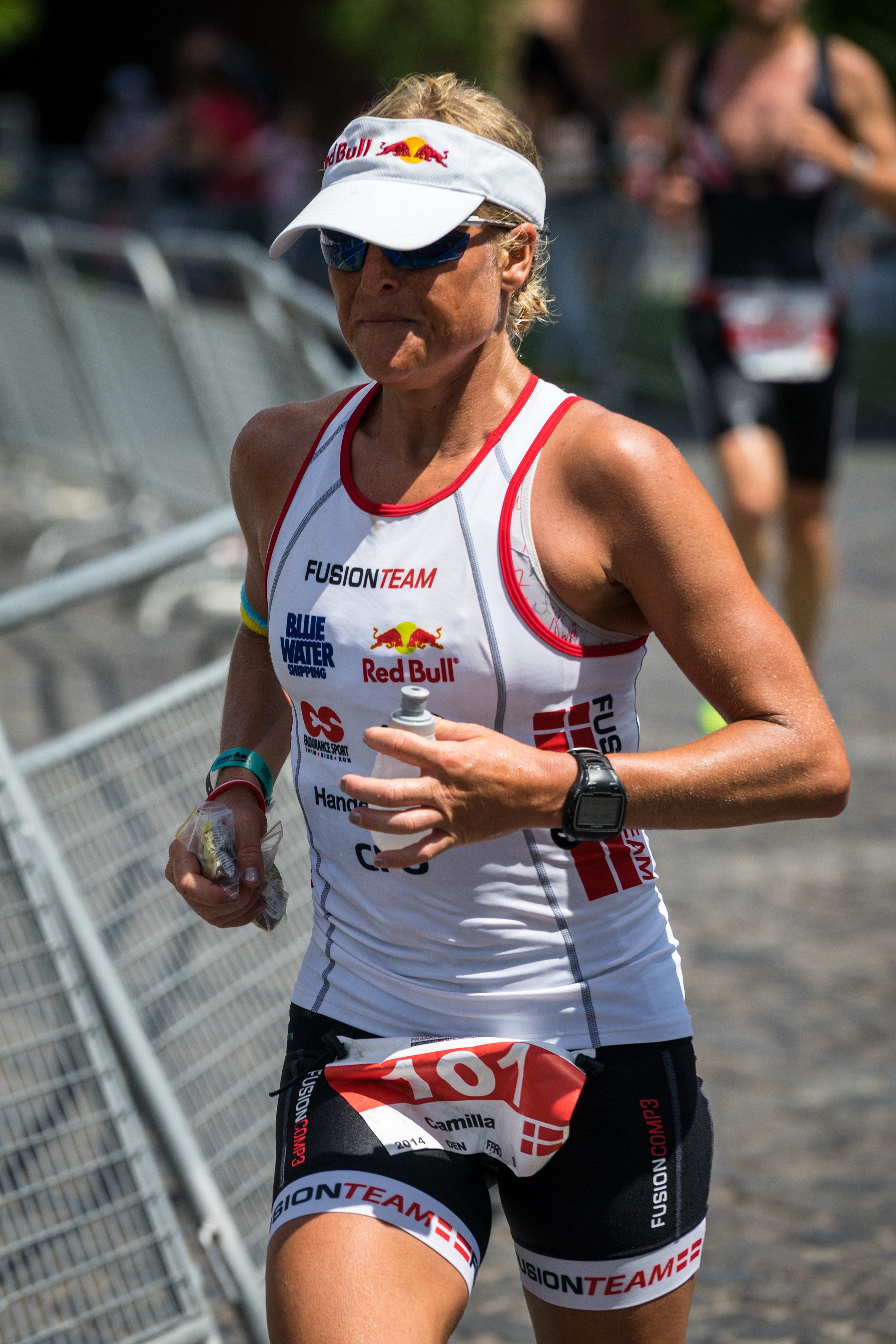 Camilla Pedersen at the 2014 Ironman European Championship in Frankfurt am Main.